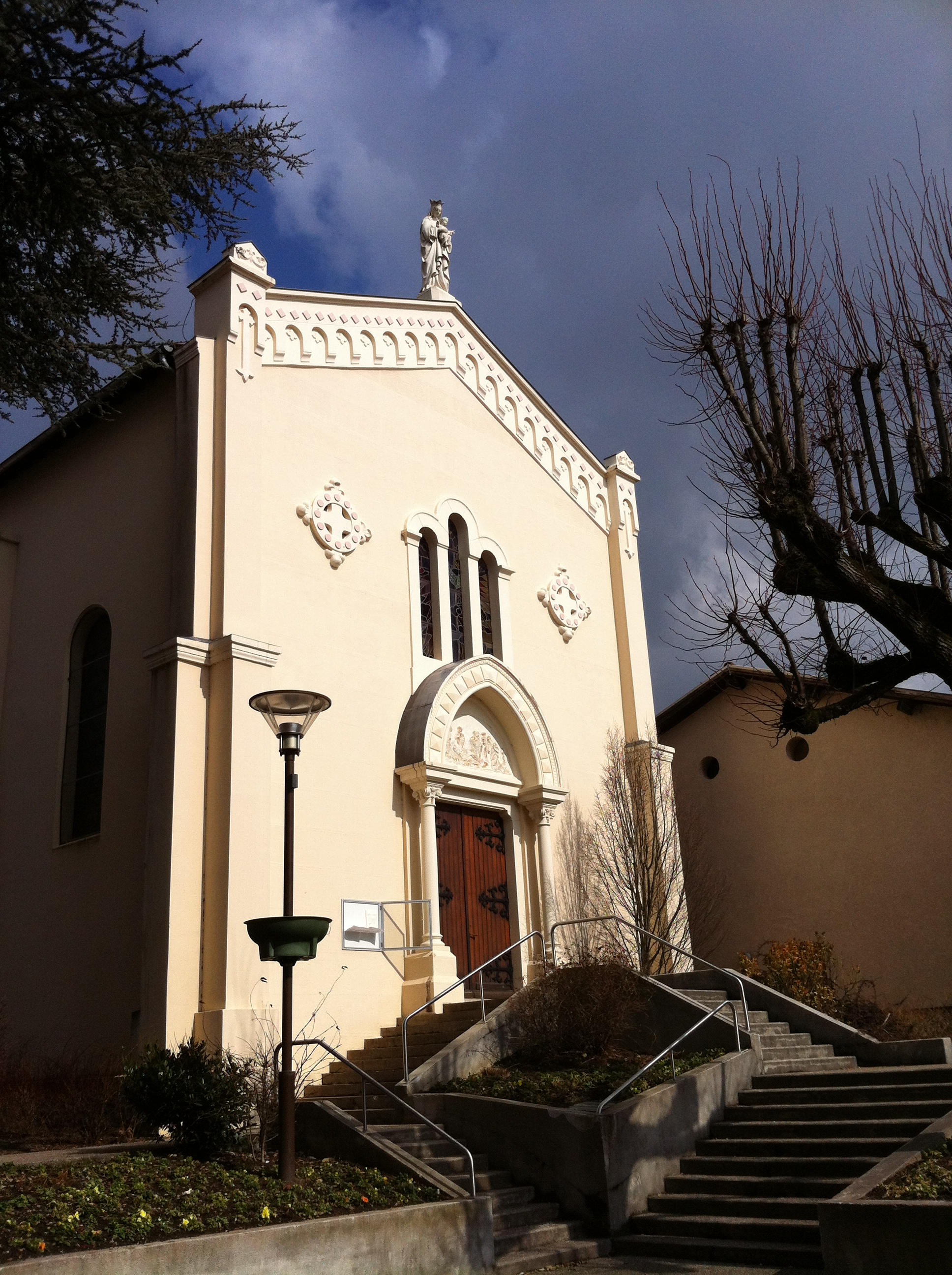 Church of Dagneux.